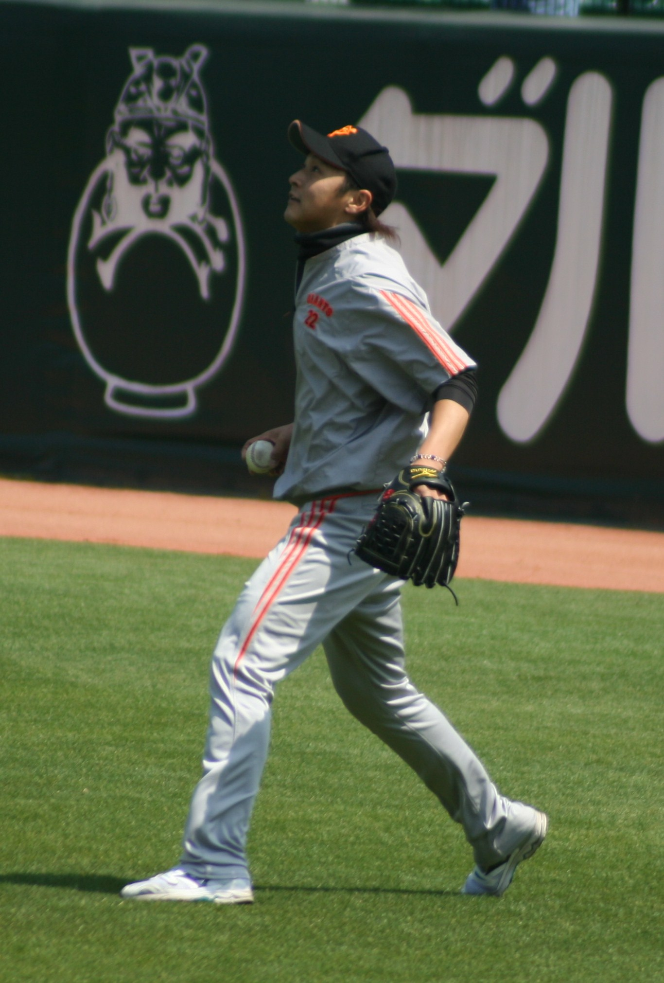 Daisuke Ochi, pitcher of the Yomiuri Giants, at Mazda Stadium.